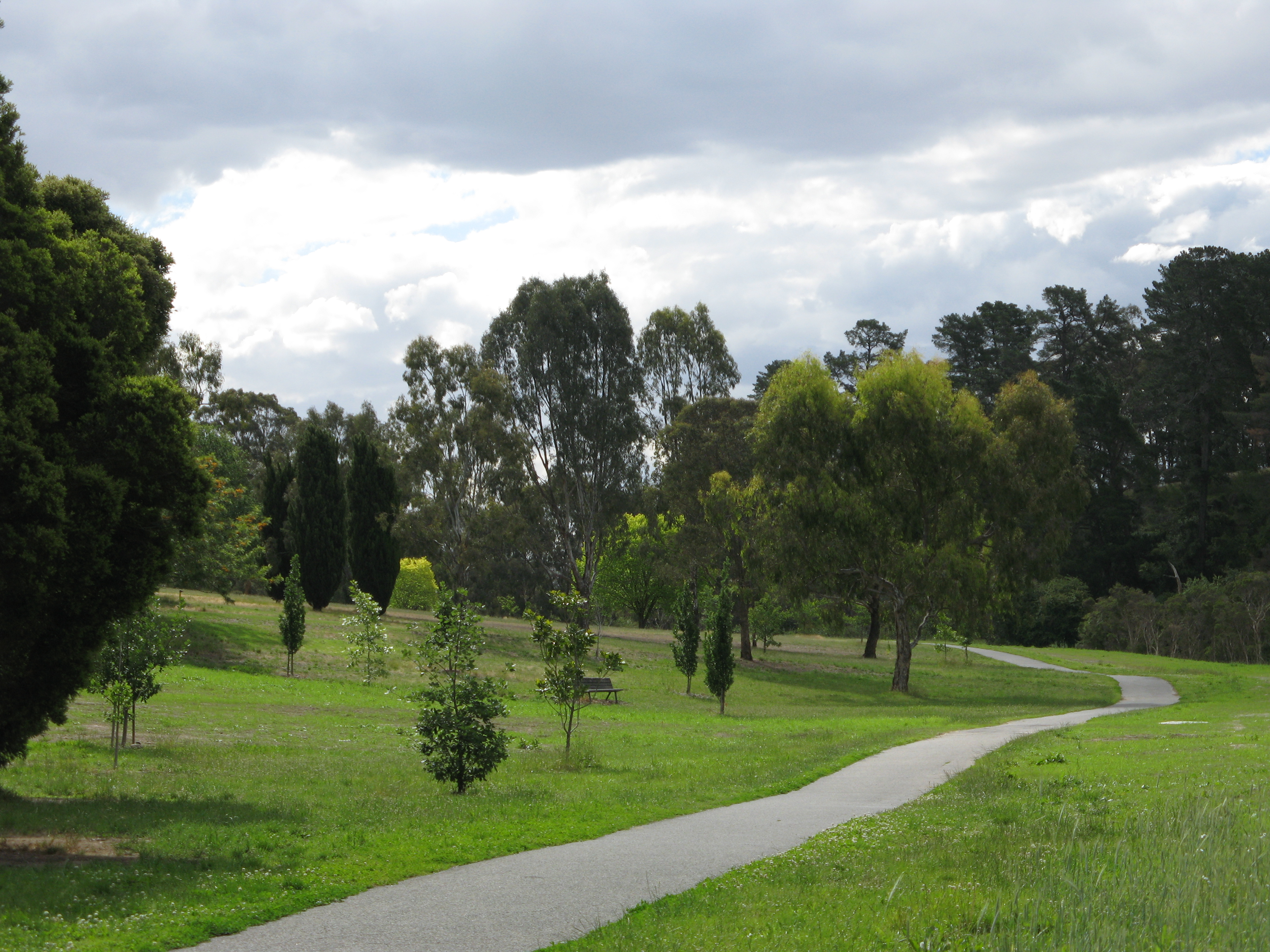 Ruffey Lake Park, looking roughly west from Ruffey Creek near Victoria Street. Photo taken by Nick carson in December 2008.